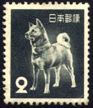 A 1953 Japanese poststamp of the Akita-Inu. The dog breed originated in Japan, and is a Natural Monument of Japan.